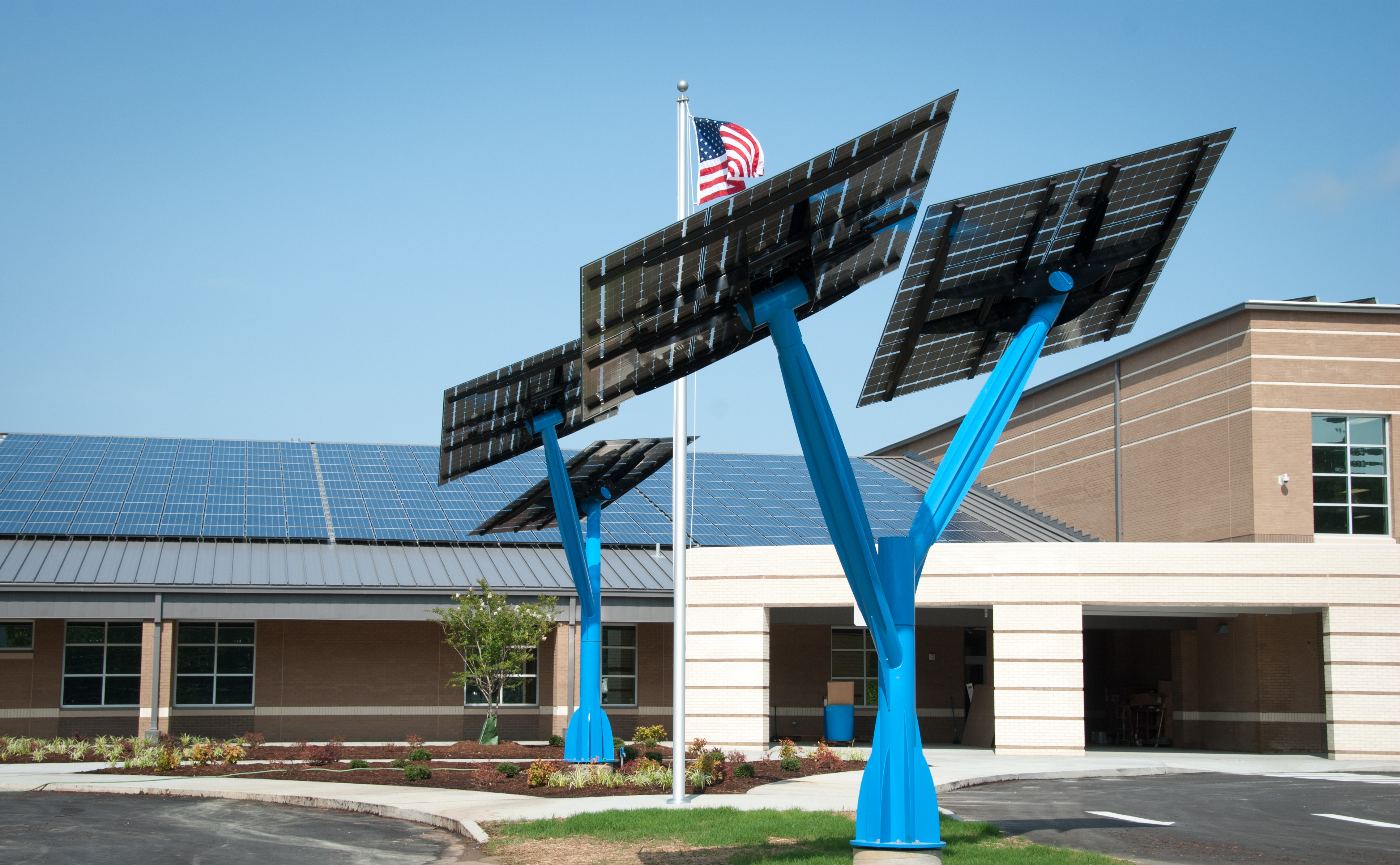 Spotlight Solar product "Lift" at net-zero school in NC, Sandy Grove Middle School – green building, solar sculpture, solar art, architecture